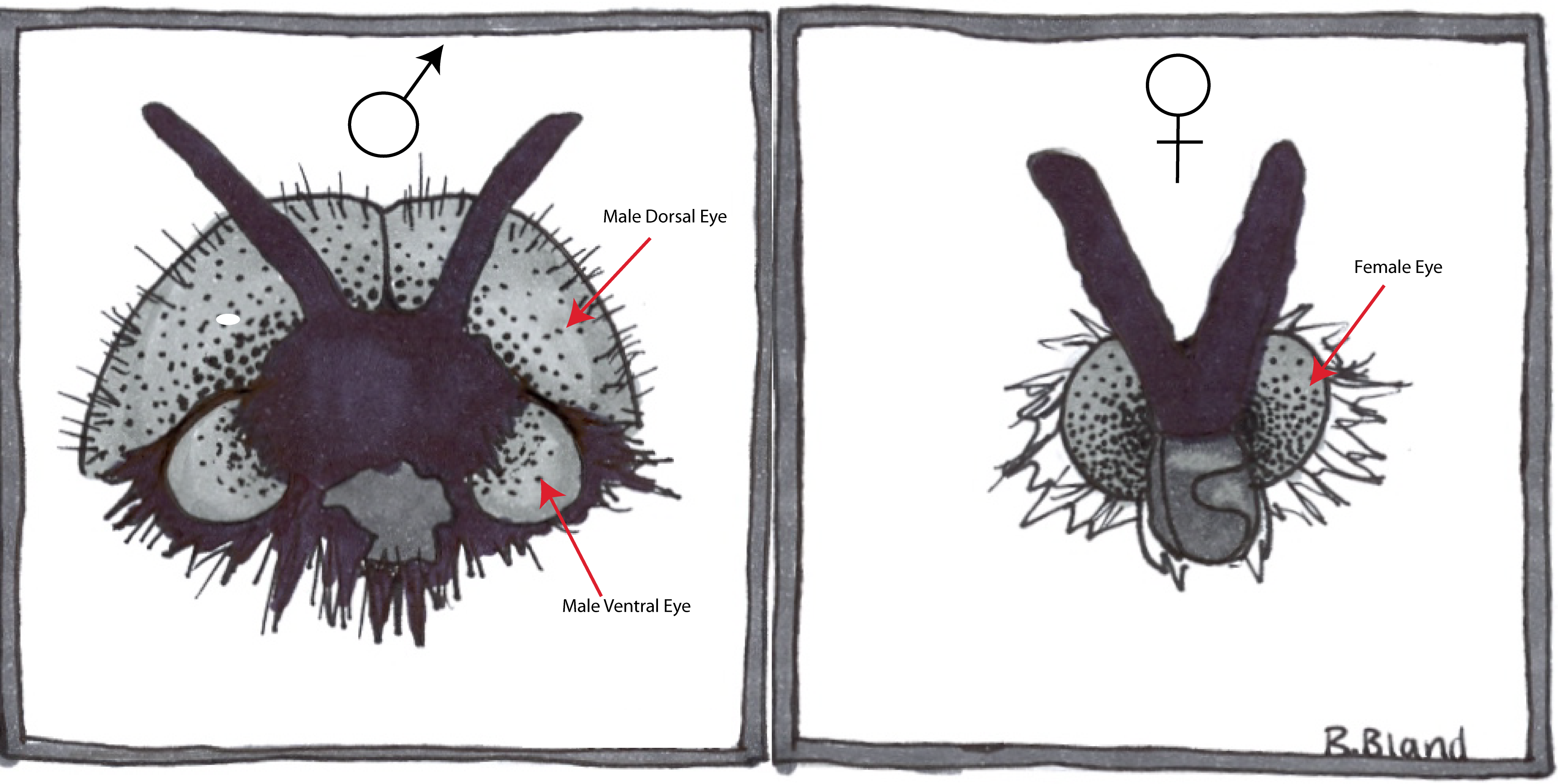 Comparison of male and female eyes of flies in the family, Bibionidae.